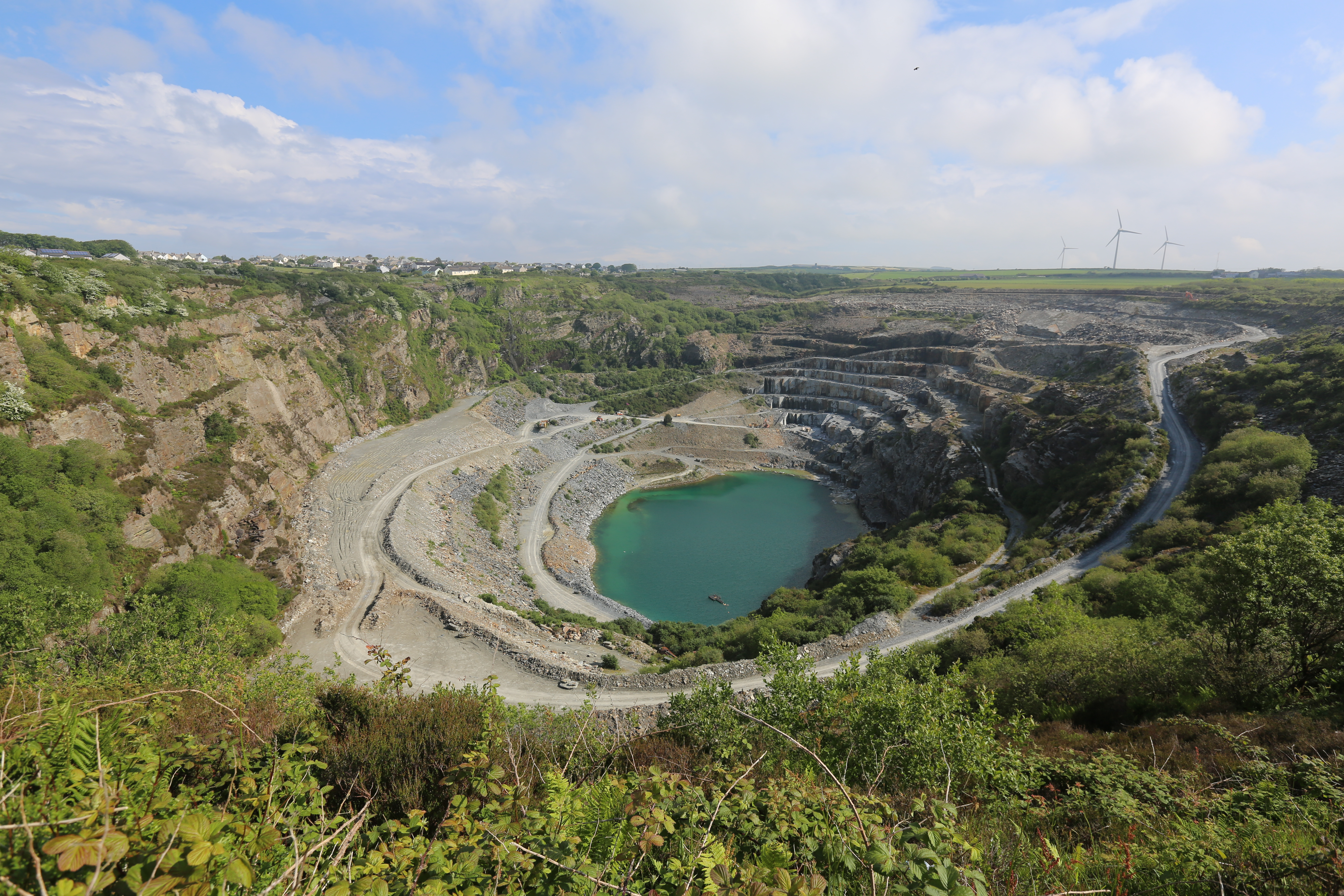 Photo of Delabole Slate Quarry